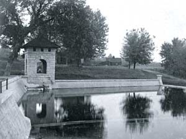 Coldwater Spring circa 1900. Image provided to Minnesota Public Radio by the National Park Service.